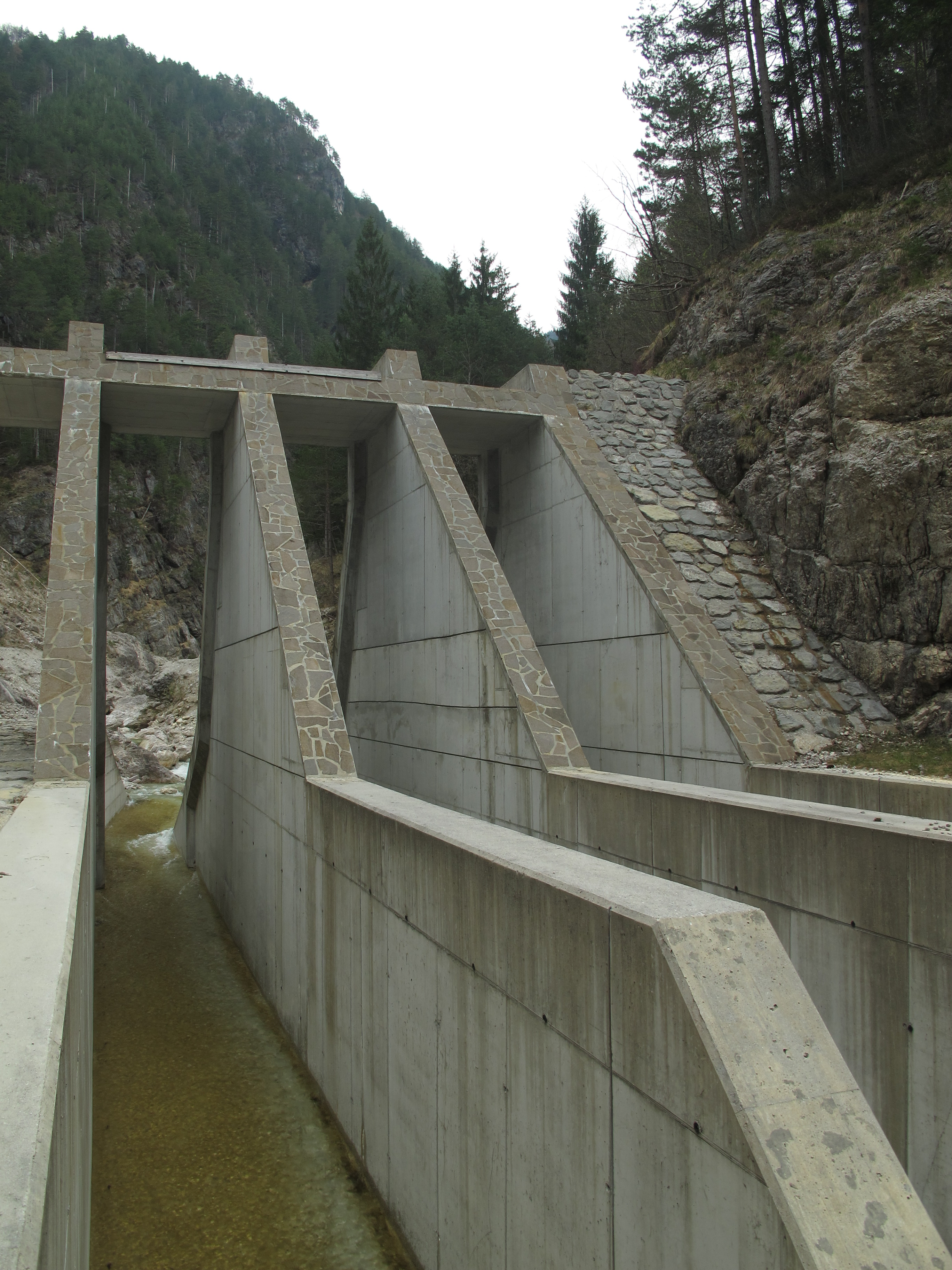 Mudflow-Breaker in Log pod Mangartom, constructed after large mudflow that hit the village in november 2000